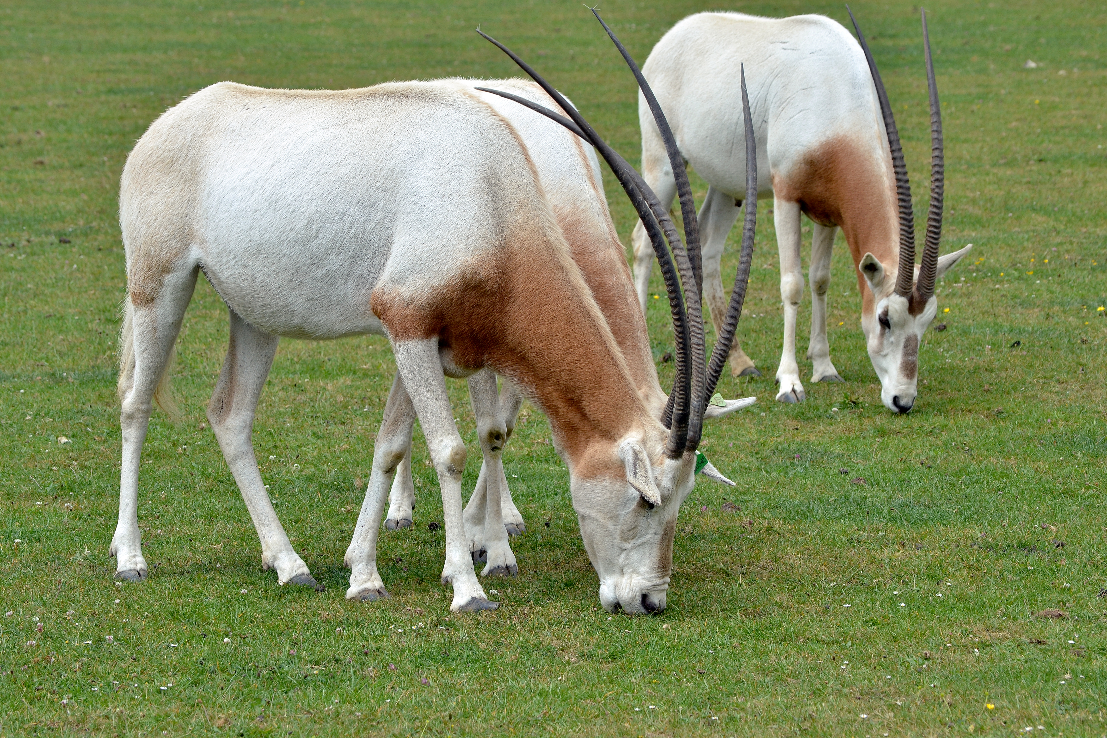 Scimitar-Horned Oryx, (Oryx dammah) in Marwell Zoo, Hampshire, UK